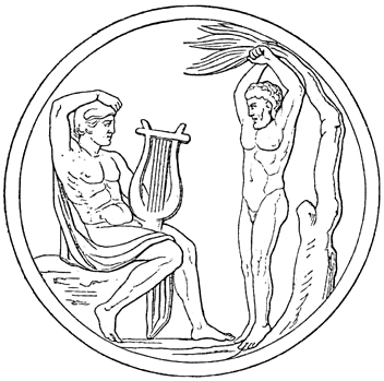 Apollon und Marsyas - aus Meyers Konversationslexikon